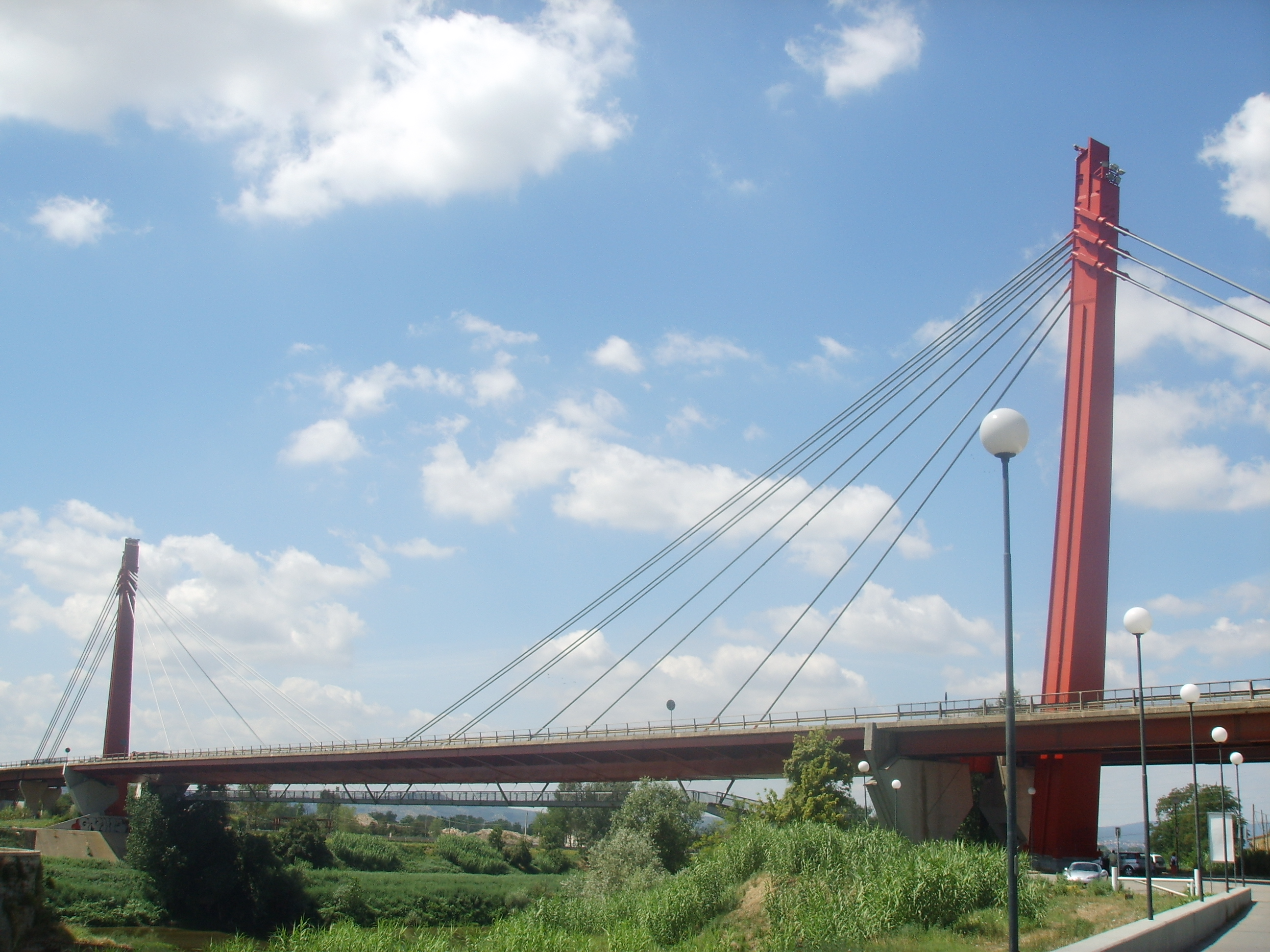 Ponte all'Indiano bridge in Florence, Italy This file has an extracted image: File:Ponte all'Indiano 7 cropped.jpg.